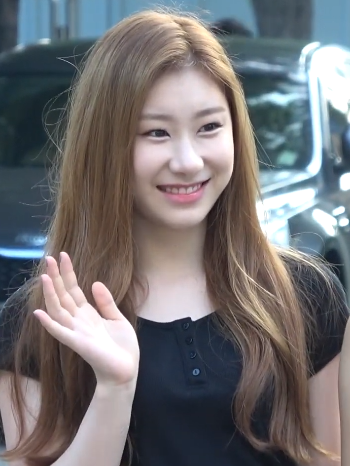 Lee Chae-ryeong going to a Music Bank recording on August 8, 2019.